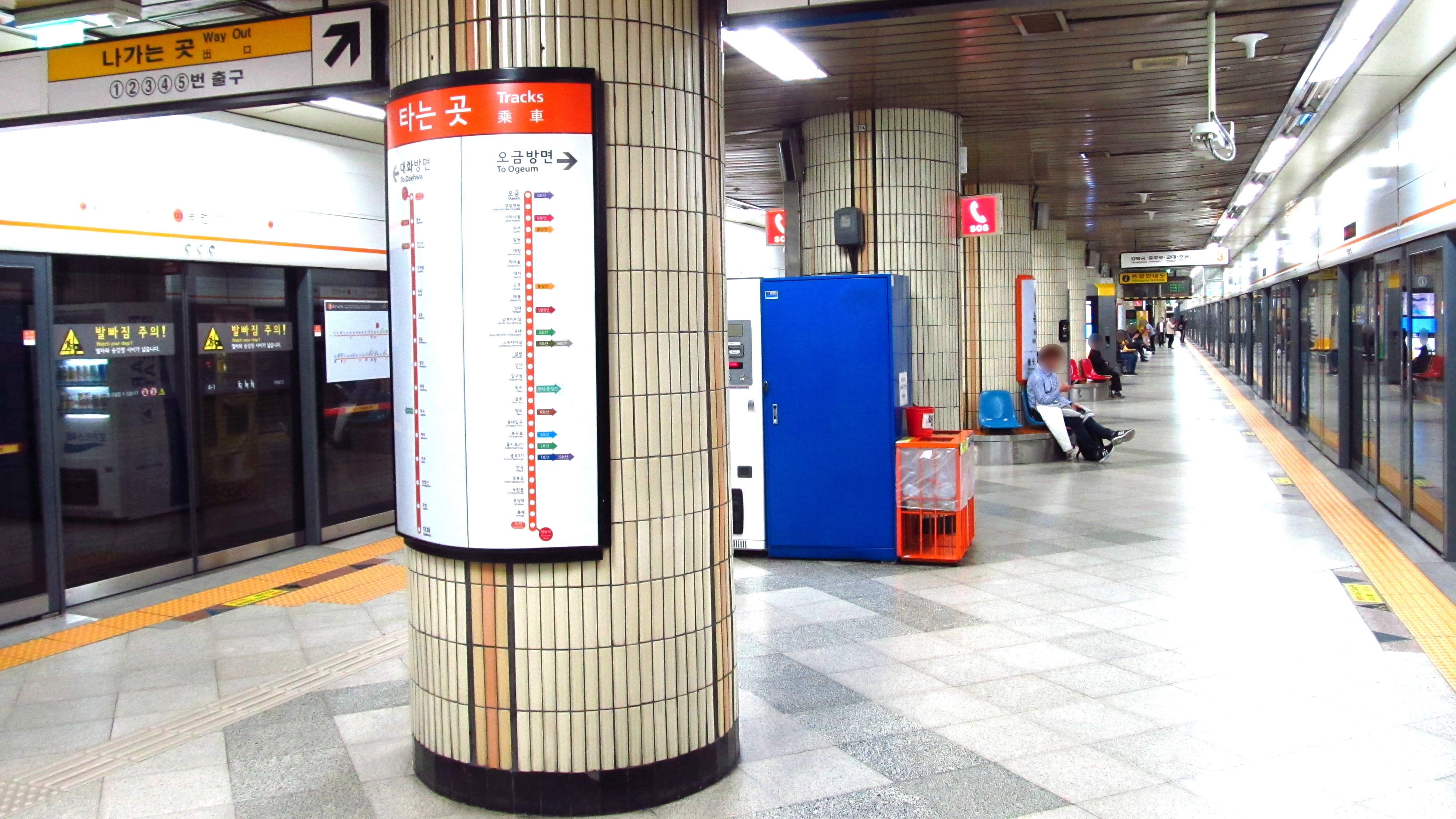 The platform at Nokbeon Station on Seoul Subway Line 3 in Eunpyeong-gu, Seoul, Republic of Korea(South Korea)